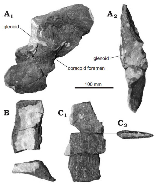 Tetanuran theropod Cruxicheiros newmanorum gen. et sp. nov. right scapulocoracoid (WARMS 15771) from the Chipping Norton Limestone Formation, Bathonian of the United Kingdom. A. Scapulocoracoid in lat− eral (A1) and ventral (A2) views. B, C. Scapular fragments in medial or lat− eral views (B, C1) and in cross−section (C2).